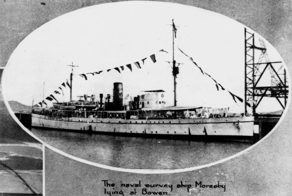 Moresby (ship). Caption on photo: The naval survey ship Moresby lying at Bowen.